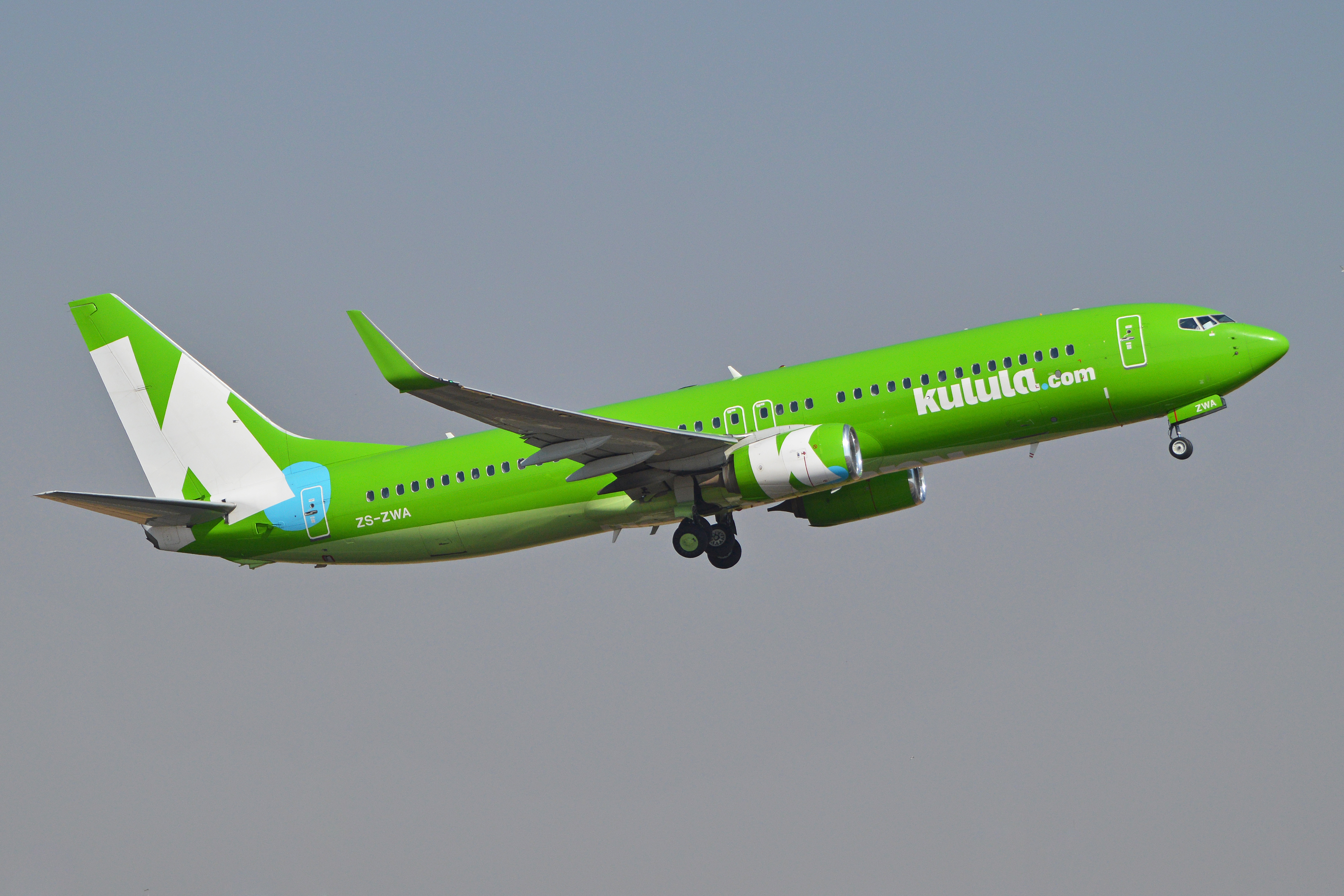 c/n 40851, l/n 4094. Built 2012. Operated by which is owned by Comair. Seen departing O.R. Tambo International Airport, Johannesburg, South Africa. 16-9-2014